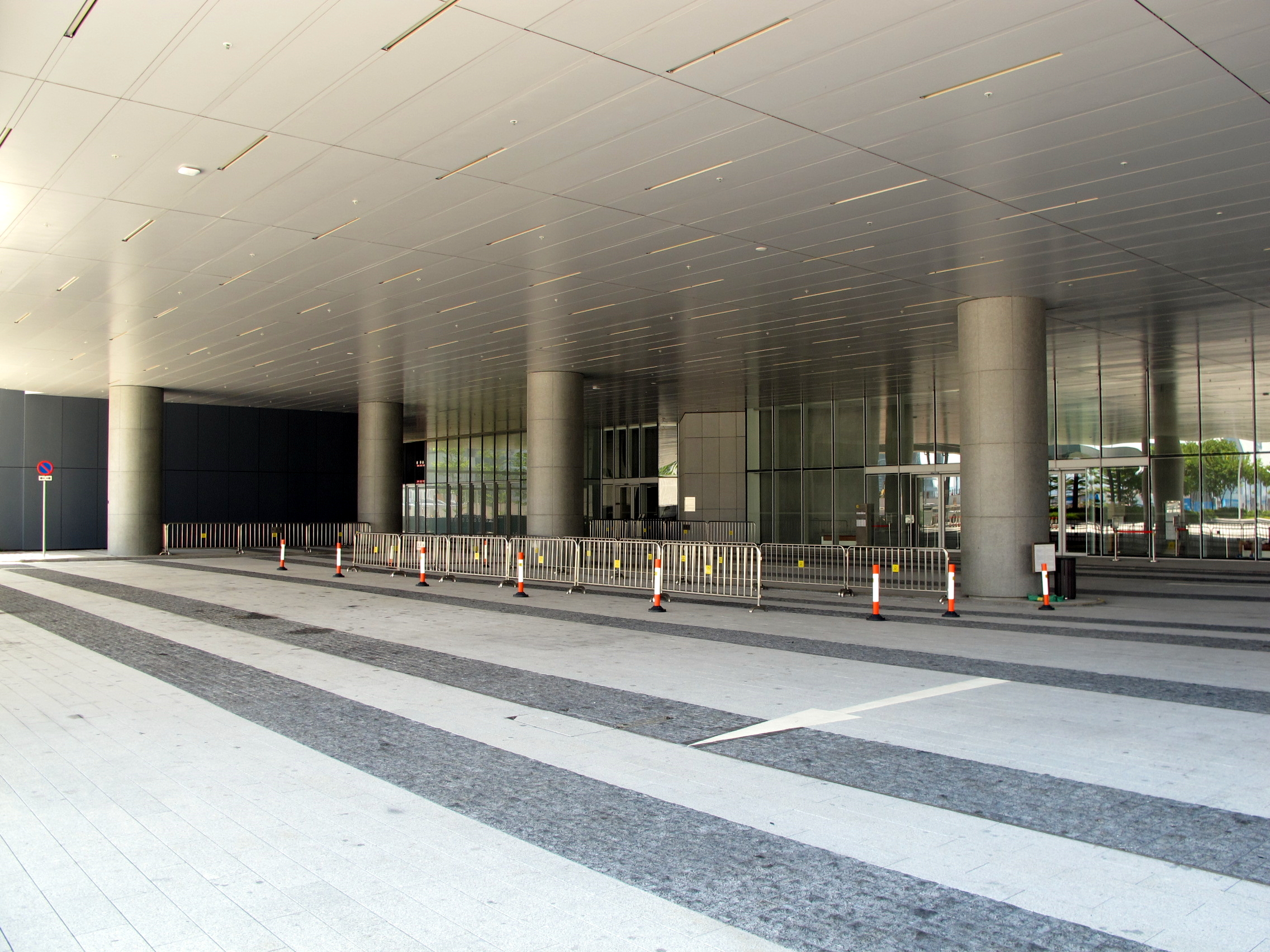 Legislative Council Complex Drop off area